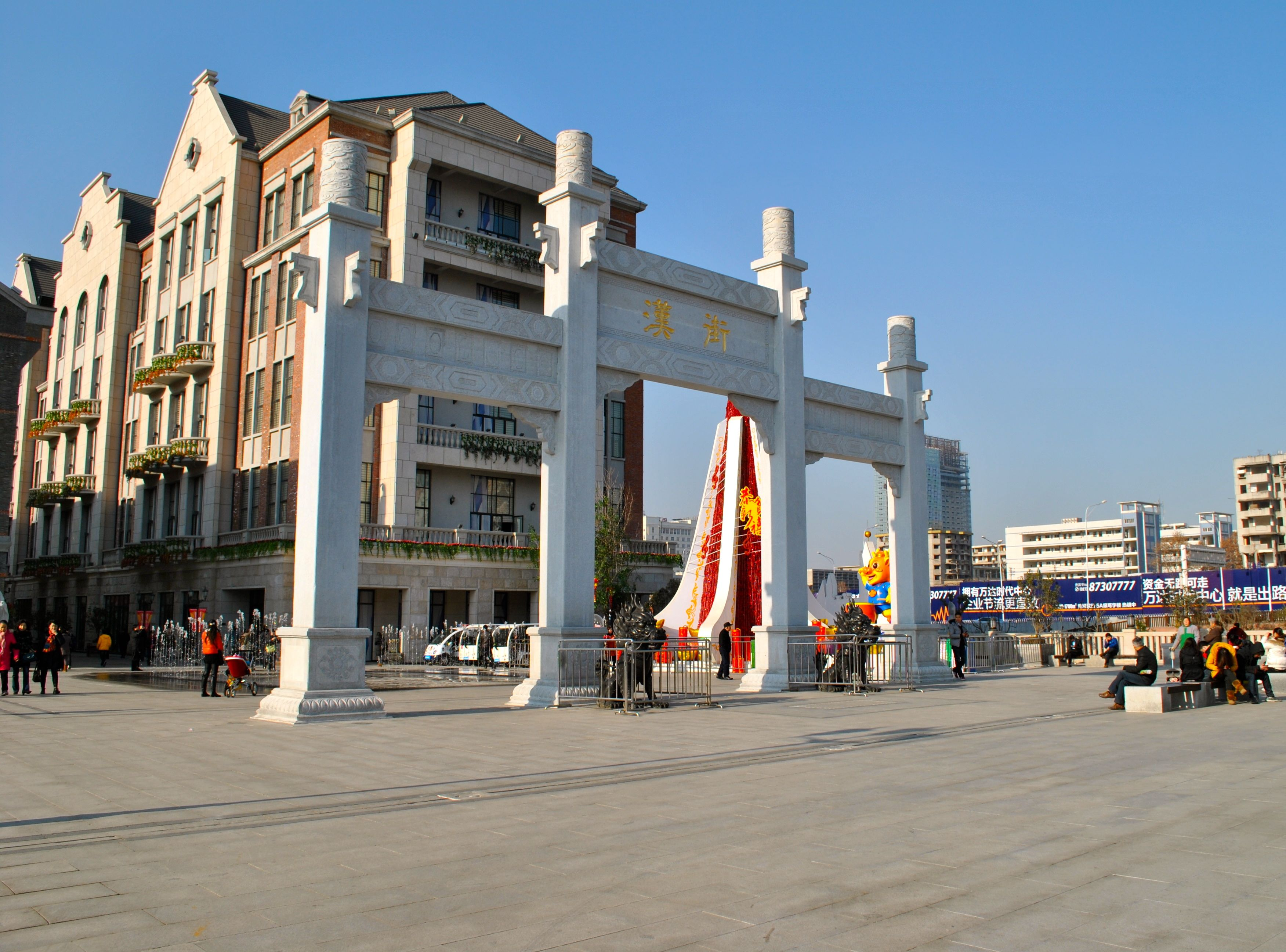 Front gate to Han street.